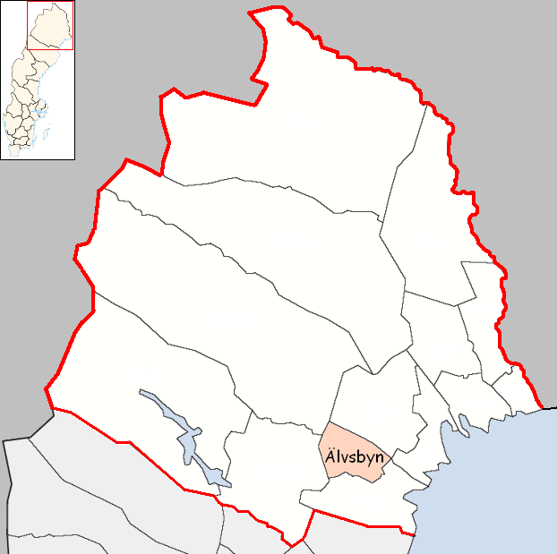 Älvsbyn Municipality in Norrbotten County Designed by me. Mere outlines are a PD source from